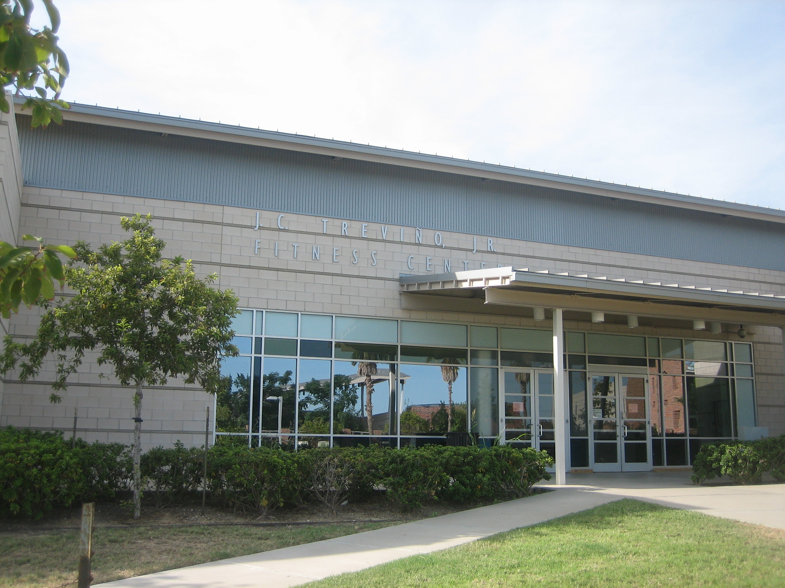 I took photo on July 5, 2009.